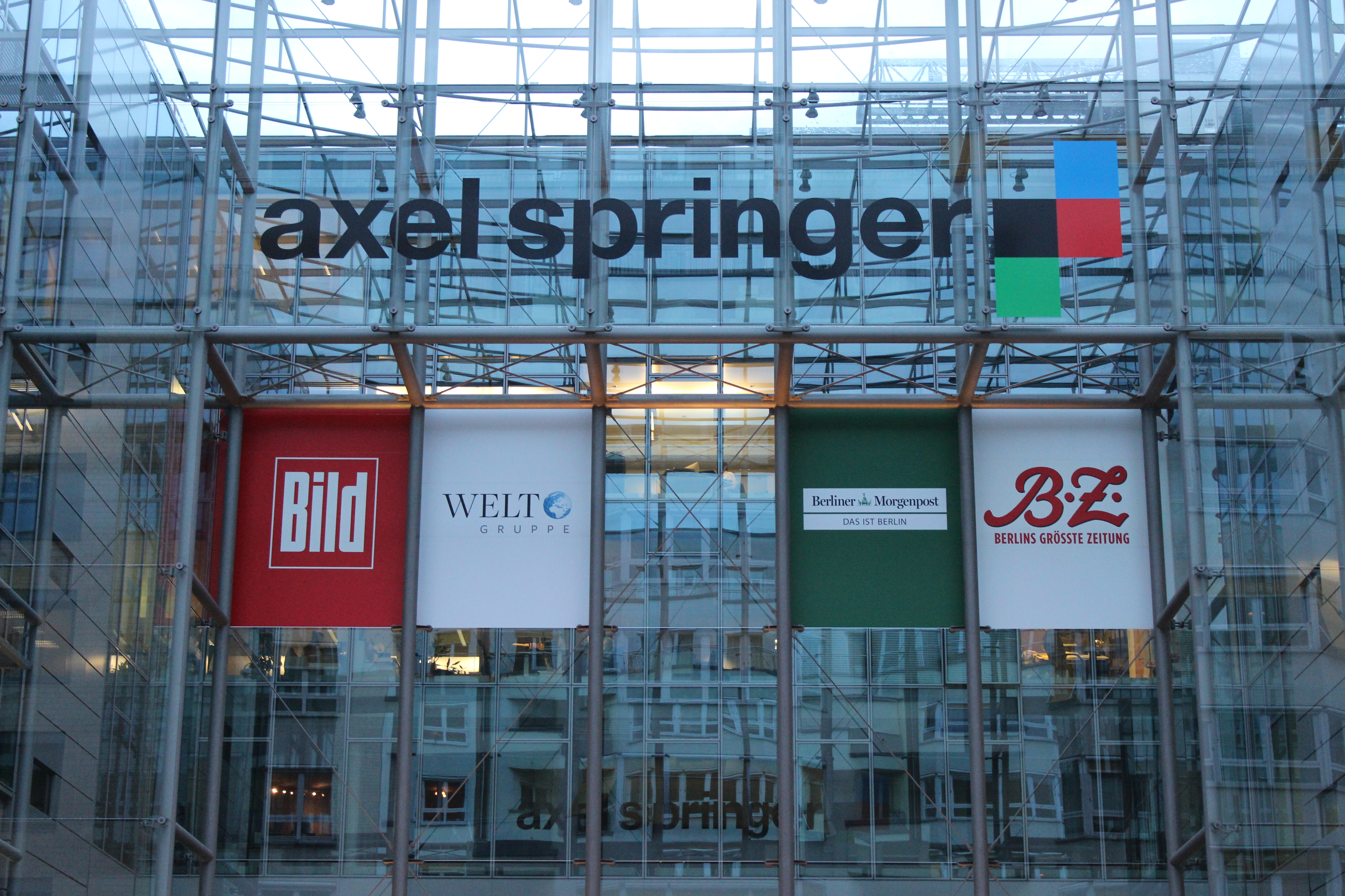 Axel Springer building and logo in Berlin.